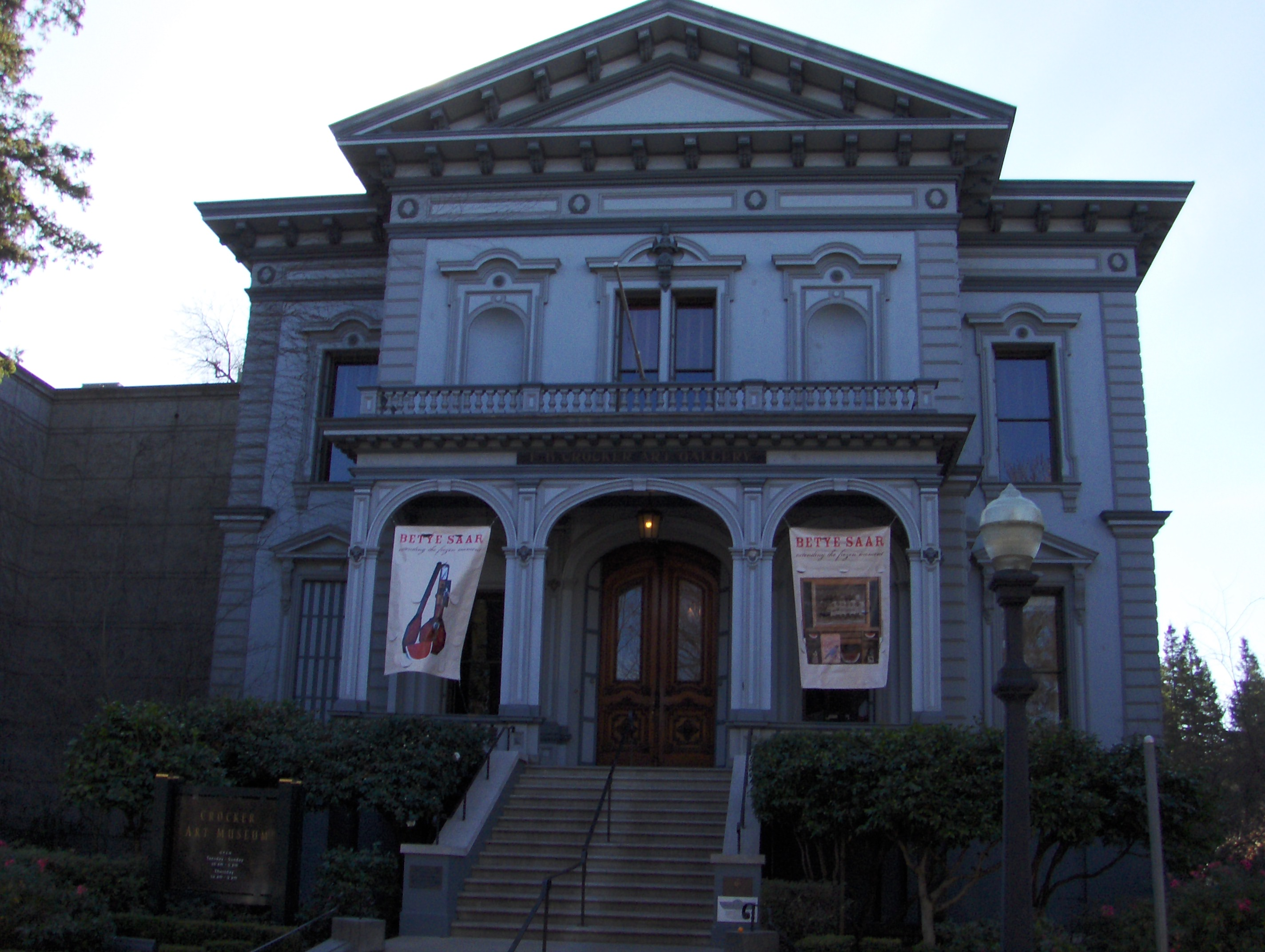 Crocker Art Museum; main entrance on north side of original building. requested photo by the Category:Wikipedia requested photographs in California; author: ronbo76; date of photo: January 13, 2007; source: HP Photosmart R725 personal digicam; fair use rationale: for the good of Wikipedia and the community at large